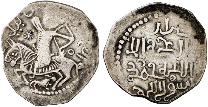 Coin struck after Empress Toregene who was the wife of Ogedei khan, and the regent of the empire after his death.